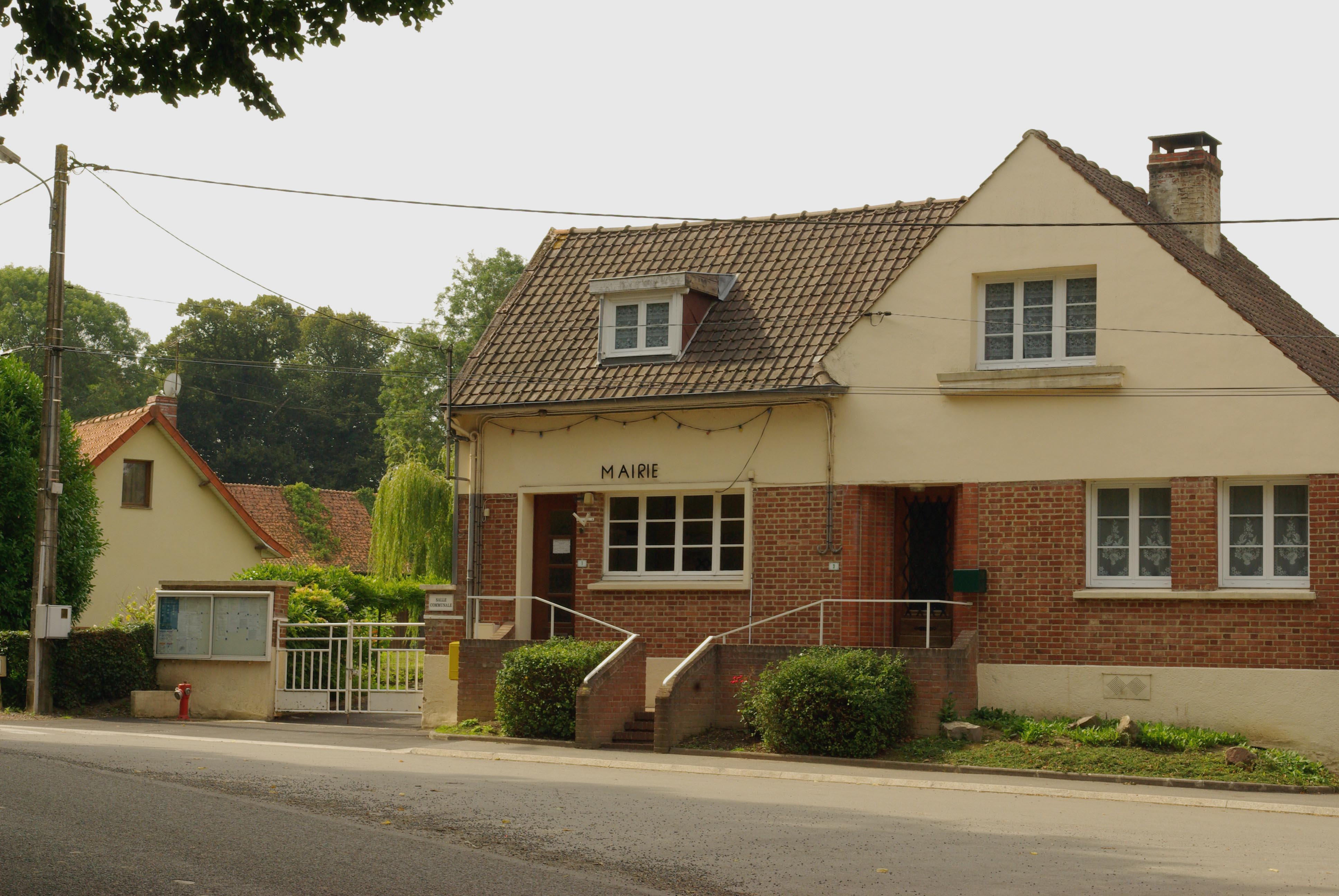 Humières, the Mayor's Office